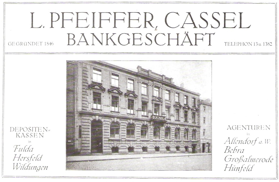 Advertisement of Bankhaus L. Pfeiffer, Kassel, Germany, 1913